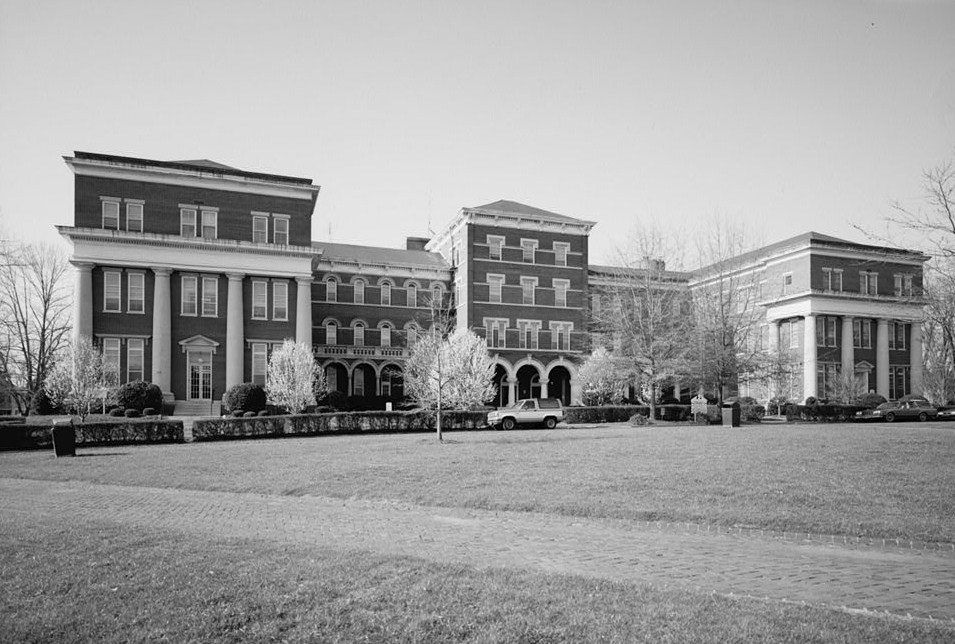 Main Hall, Montevallo (Shelby County, Alabama) Object location33° 06′ 10″ N, 86° 51′ 57″ W The geographical information of this file was retrospectively estimated. Chances are that this location is very imprecise. Verifying and refining these coordinates is strongly encouraged.